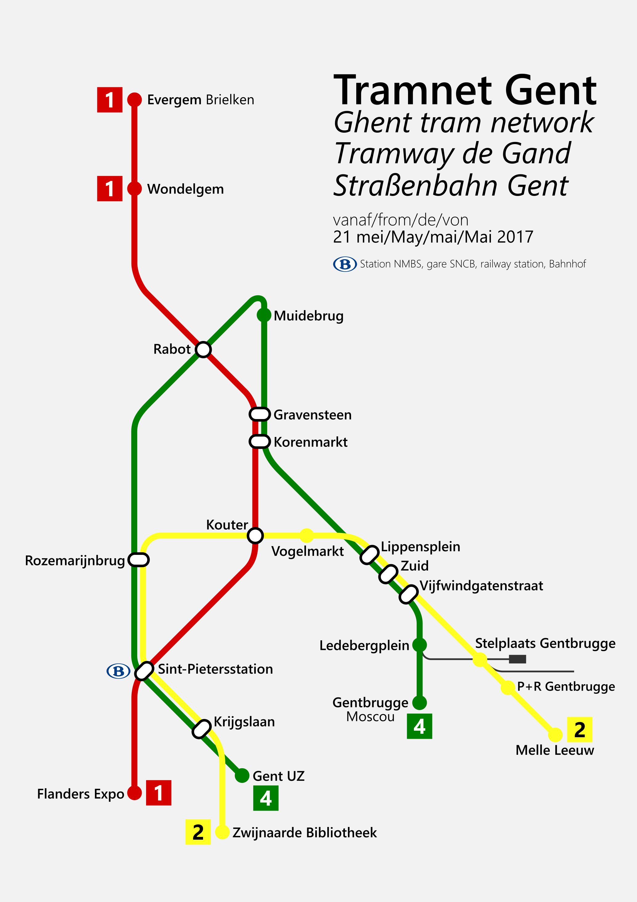 Map of the tram system in Ghent, Belgium